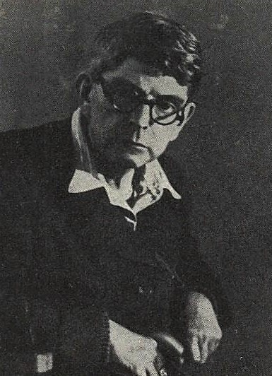 Zdeněk Matěj Kuděj, Czech writer, 1941